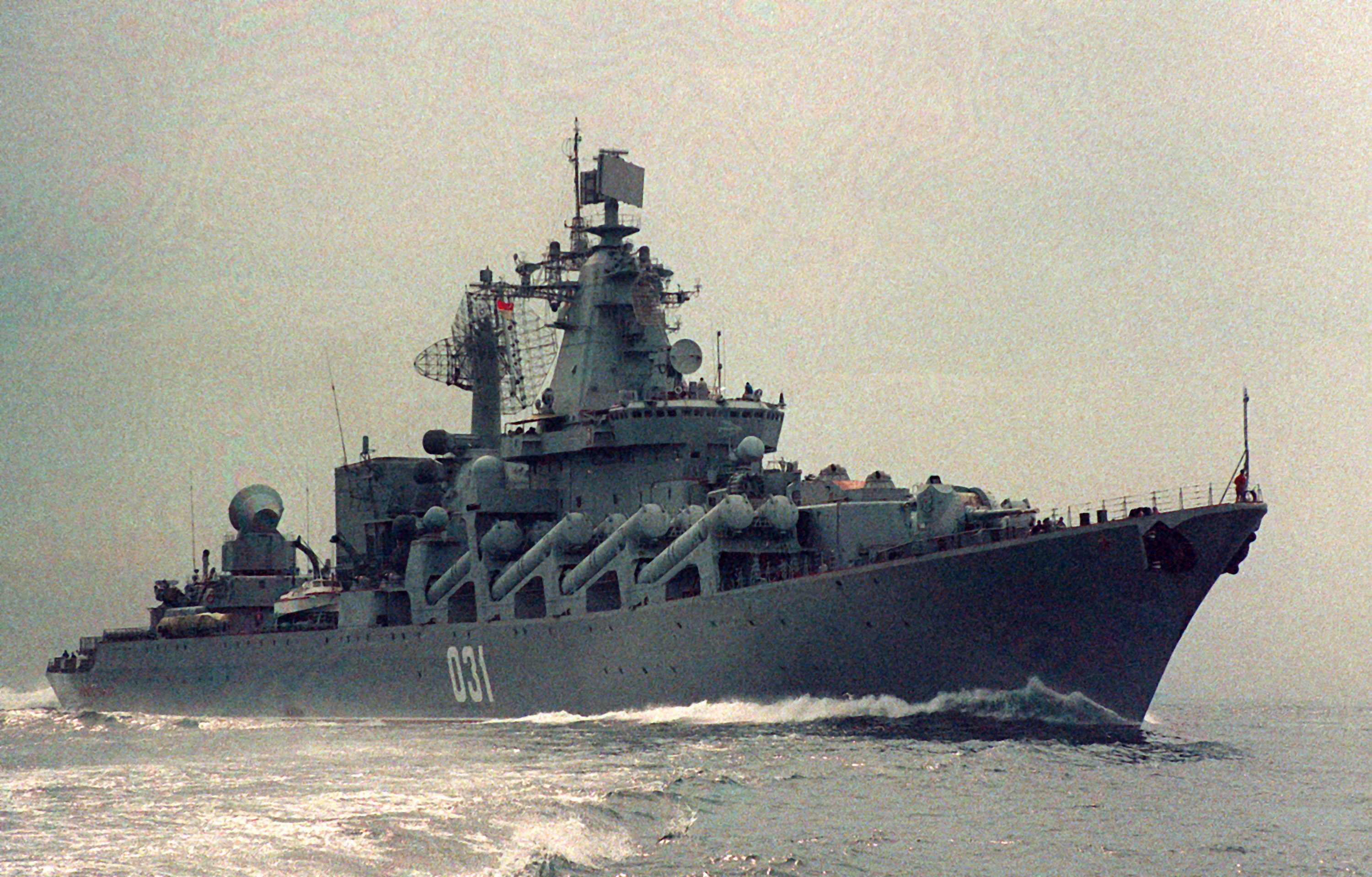 A starboard bow view of the Soviet Slava-class guided missile cruiser CHERVONA UKRAINA underway en route to the Pacific Ocean from the Black Sea.